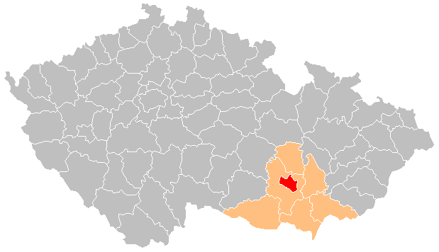 Brno-City District within South Moravia Region. Current borders of districts since January 1, 2007.